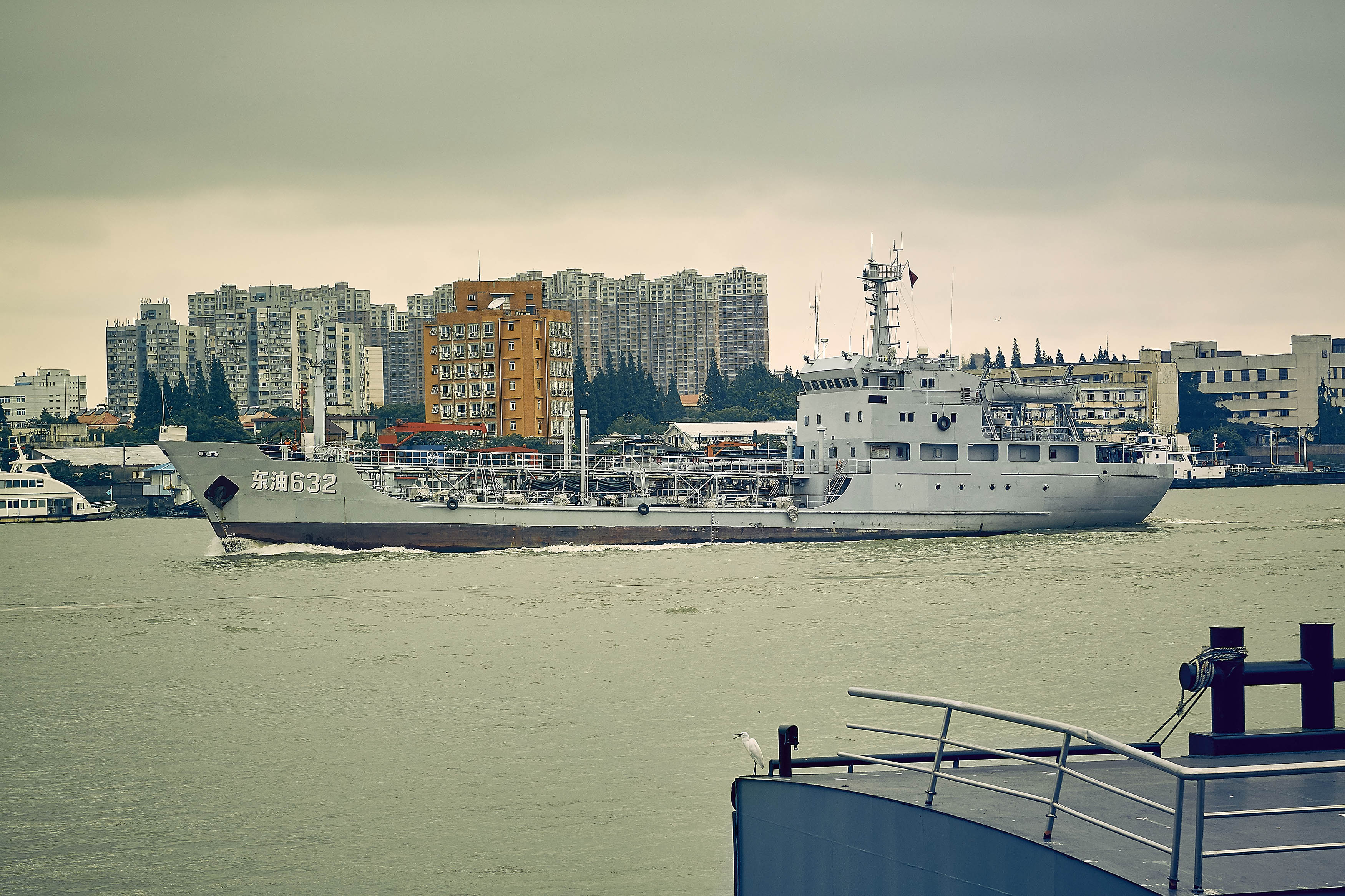 Dong-You 632 in July 2016